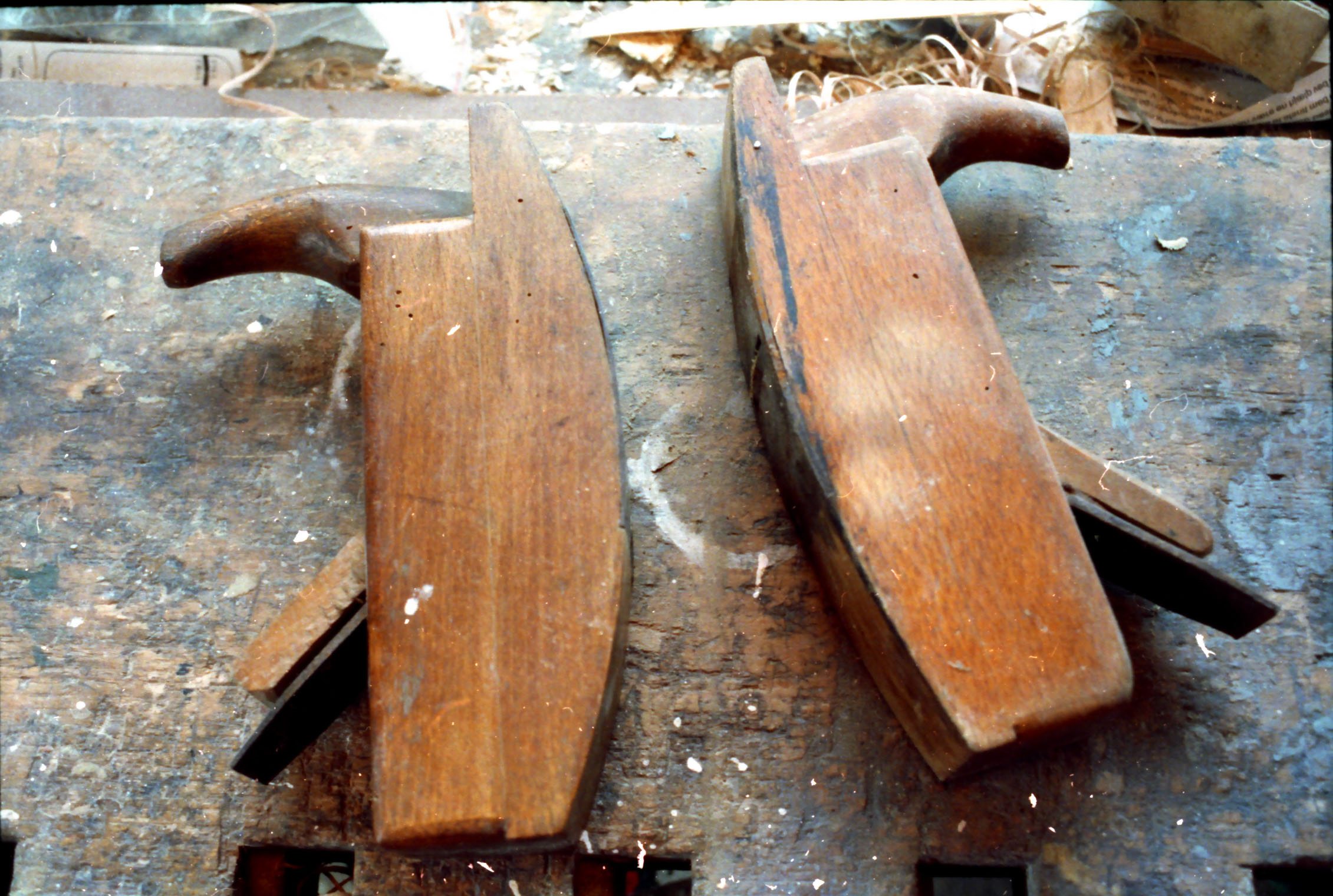 Plane (tool) to make wheels